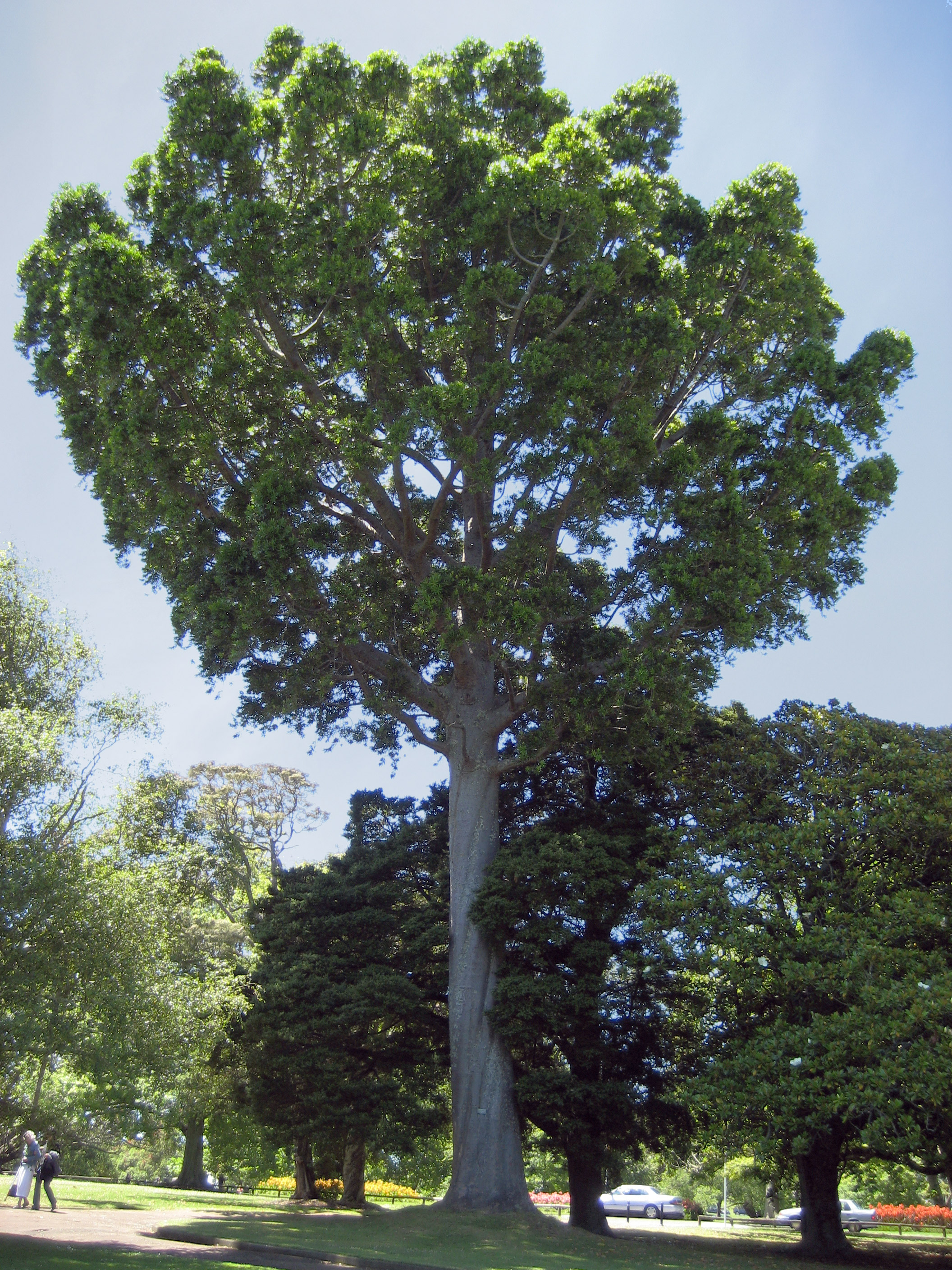 South Queensland Kauri, Agathis robusta, Auckland Domain, Auckland, New Zealand. People walking near the base of the tree provide an idea of scale.